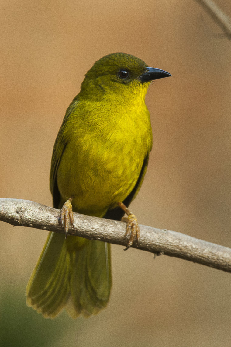 Olive-green Tanager - Itatiaia - Brazil_MG_1112